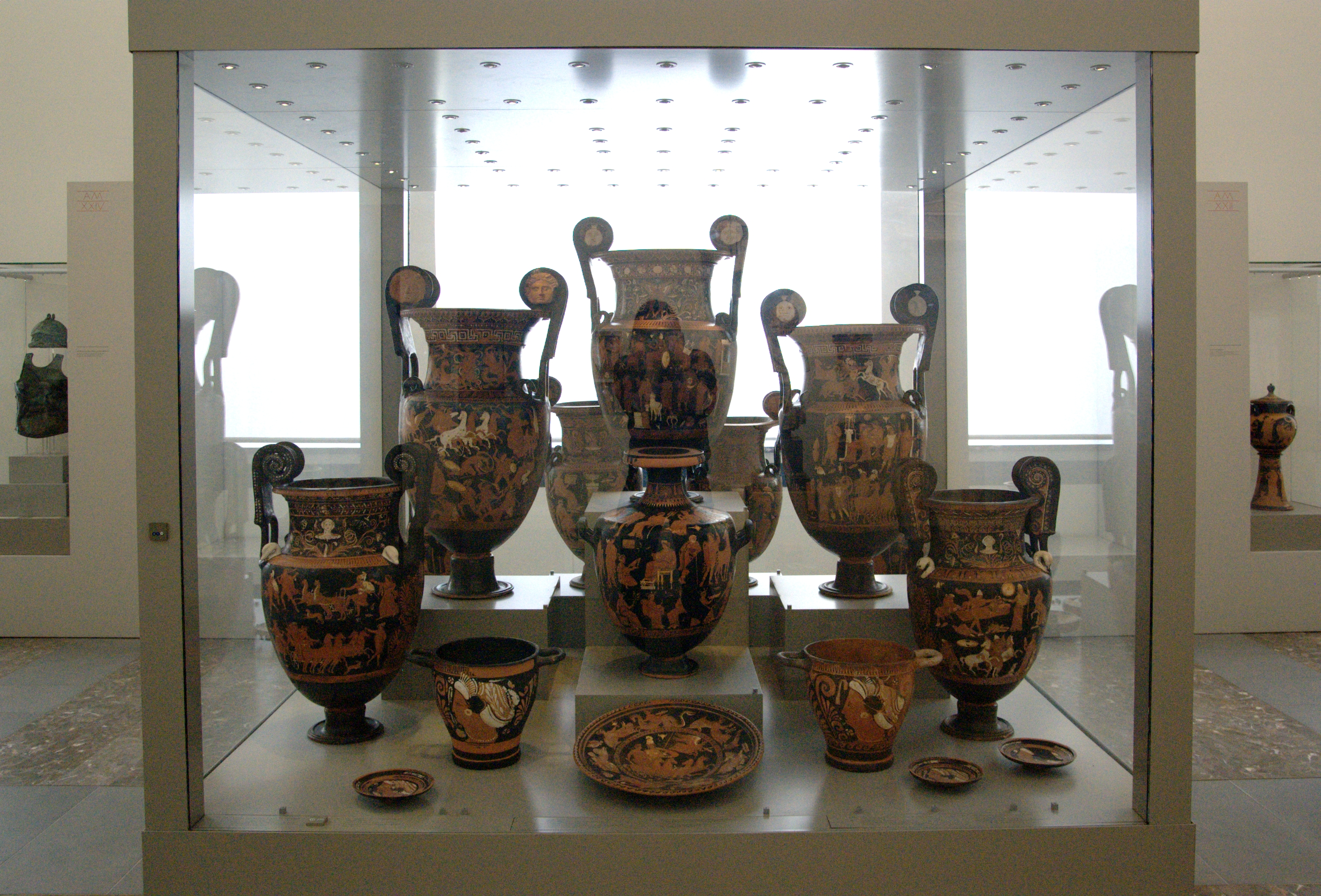 Apulian red-figure vases from a grave, ca. 340 BC.